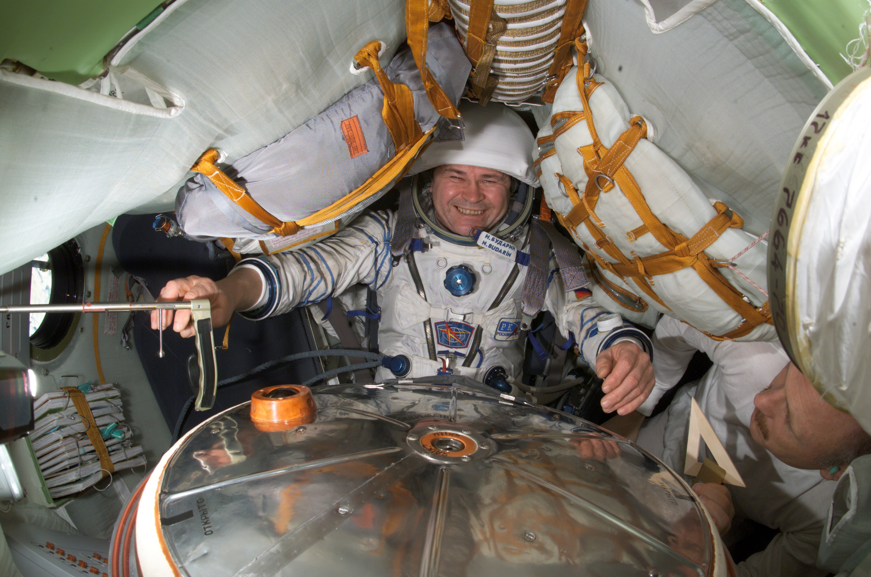 Wearing a Russian Sokol suit, cosmonaut Nikolai M. Budarin, Expedition Six flight engineer, is pictured in a Soyuz spacecraft that is docked to the International Space Station (ISS). Astronaut Kenneth D. Bowersox, mission commander, is visible at lower right. Budarin represents Rosaviakosmos.